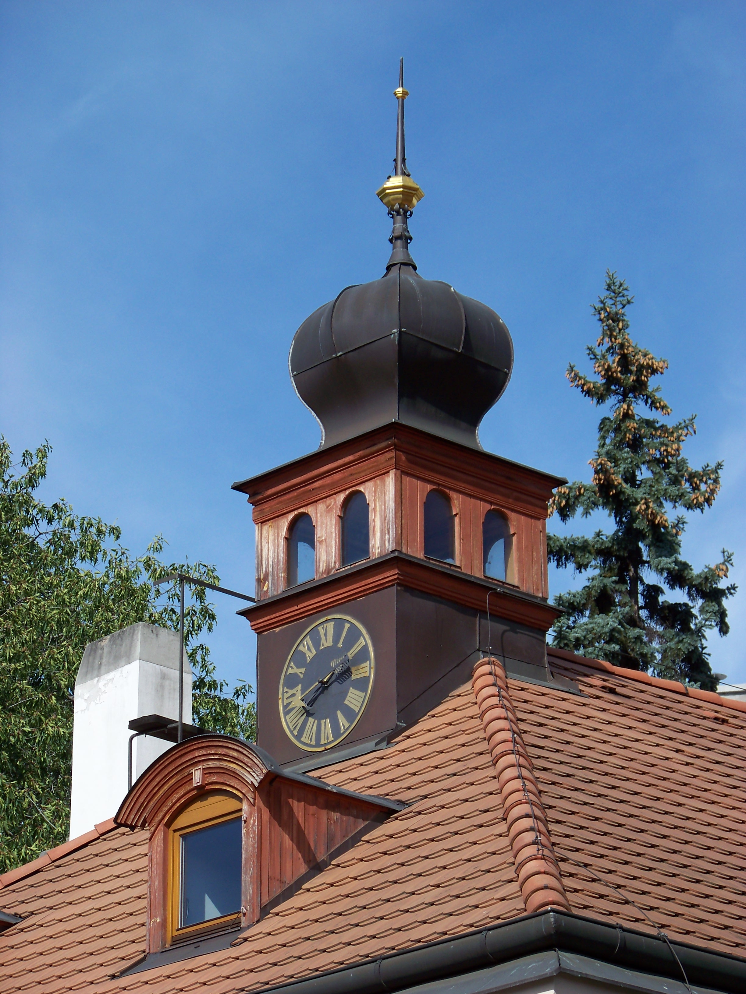 Prague-Vinohrady, the Czech Republic. Perucká 61/13 Vondračka estate.